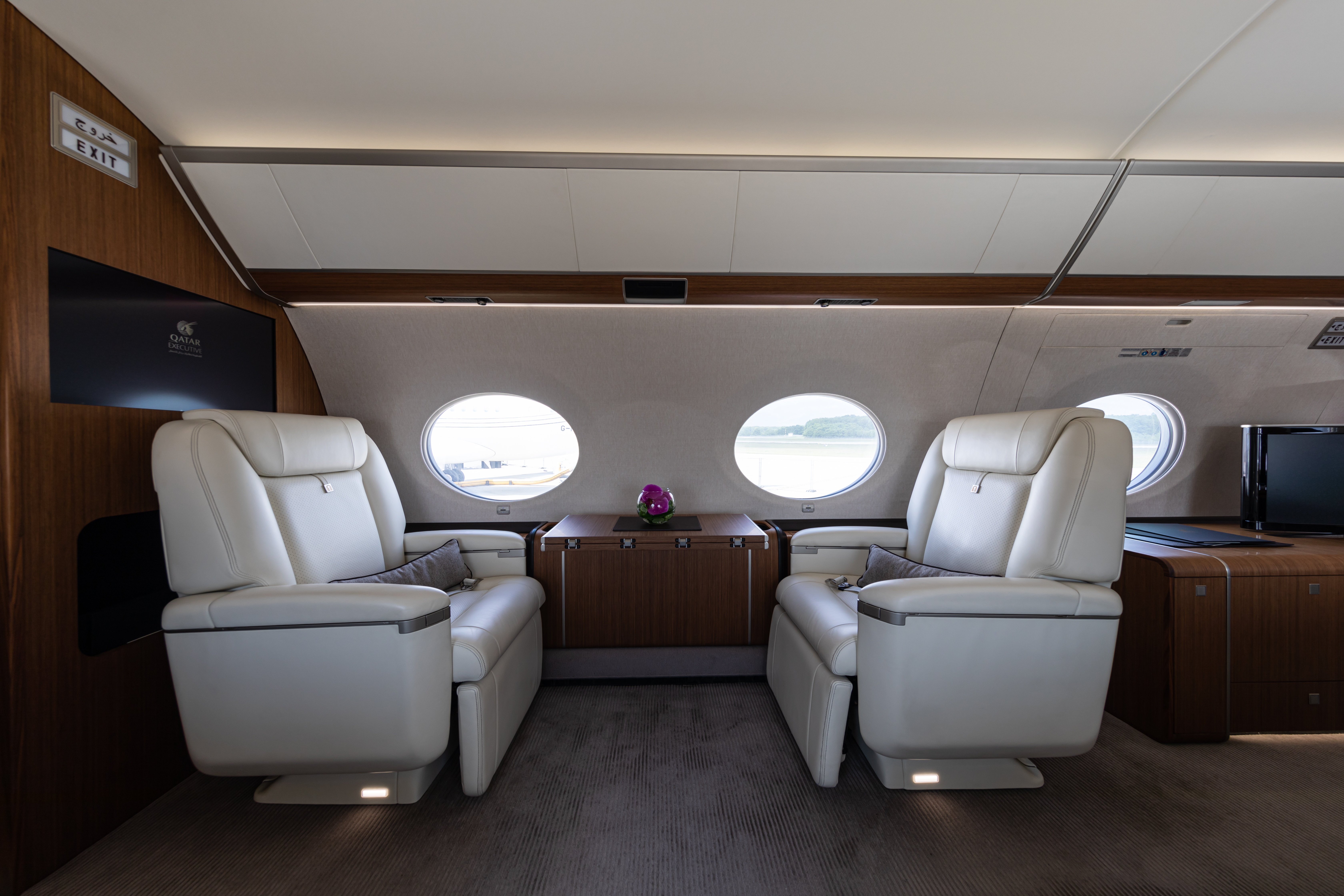 EBACE 2019, Palexpo, Switzerland